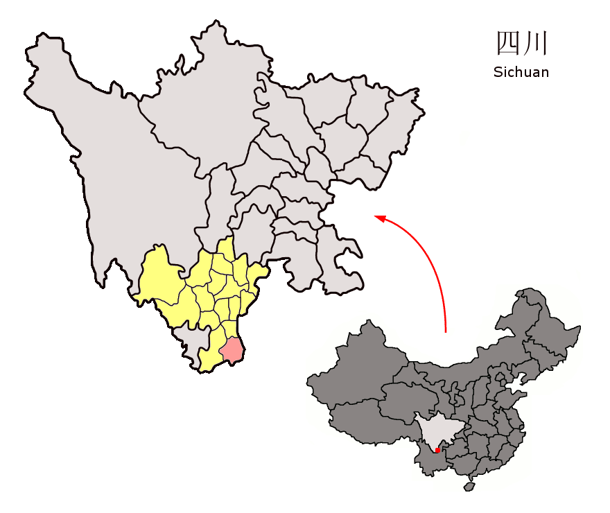 Location of Huidong County (pink) and Liangshan Prefecture (yellow) within Sichuan province of China Map drawn in september 2007 using various sources, mainly : Sichuan province administrative regions GIS data: 1:1M, County level, 1990 Sichuan Counties map from